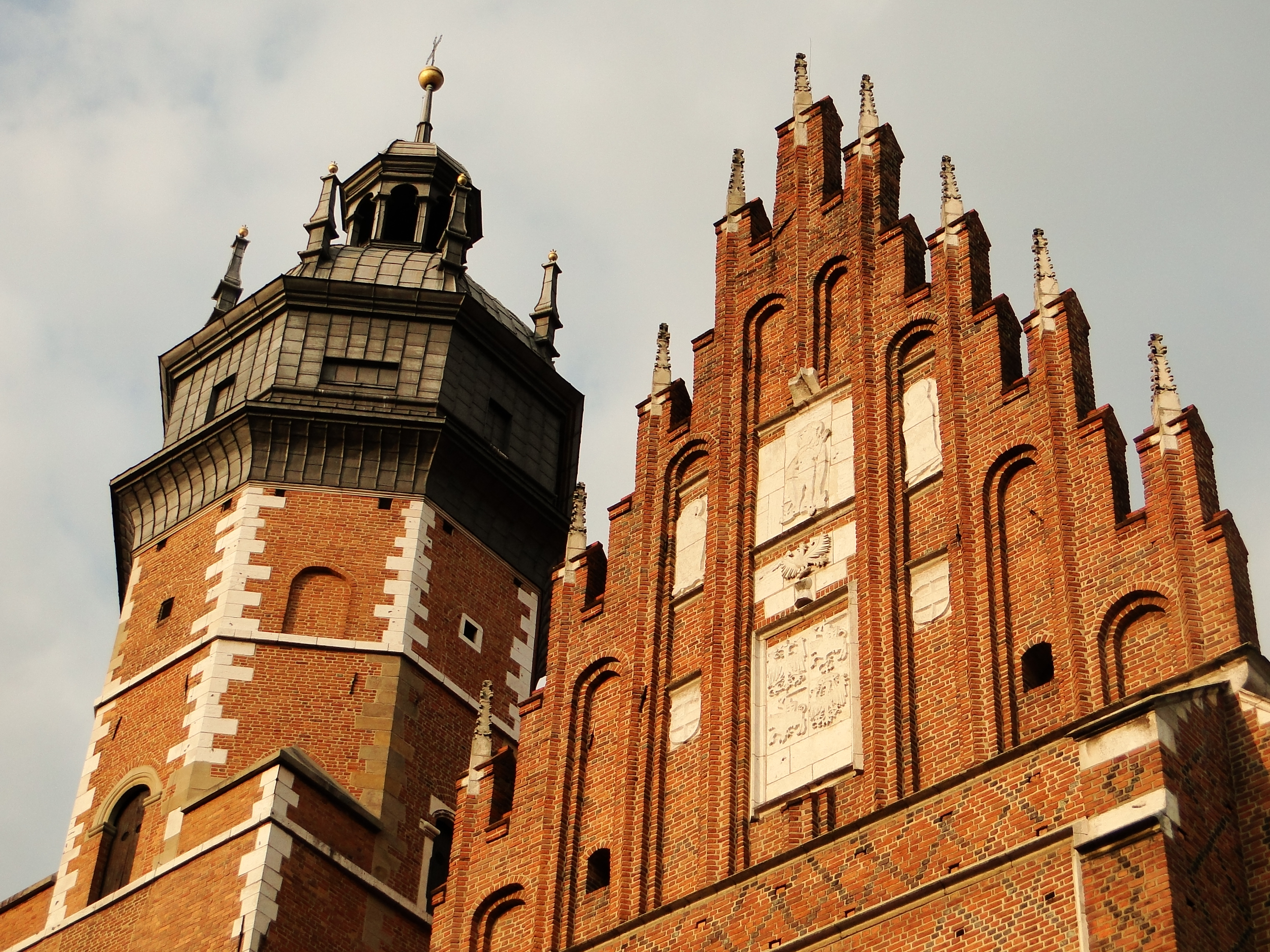 Corpus Christi Basilica, Cracow, Poland